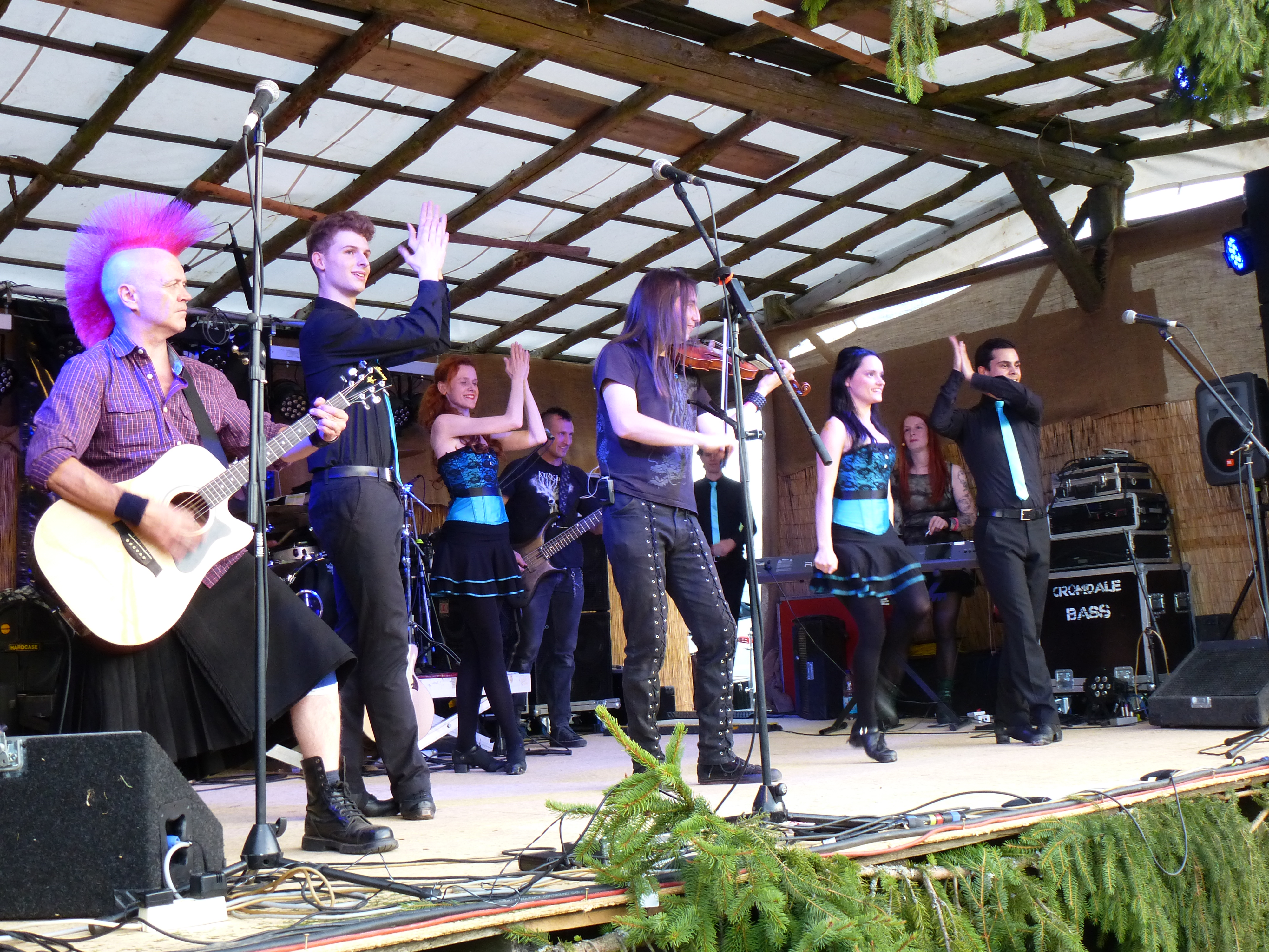 Larkin & Irish Beat Dance Company at the 25th Altburgfestival at the historic celts settlement Altburg / Hunsrueck mountains range, Rhineland-Palatinate, Germany